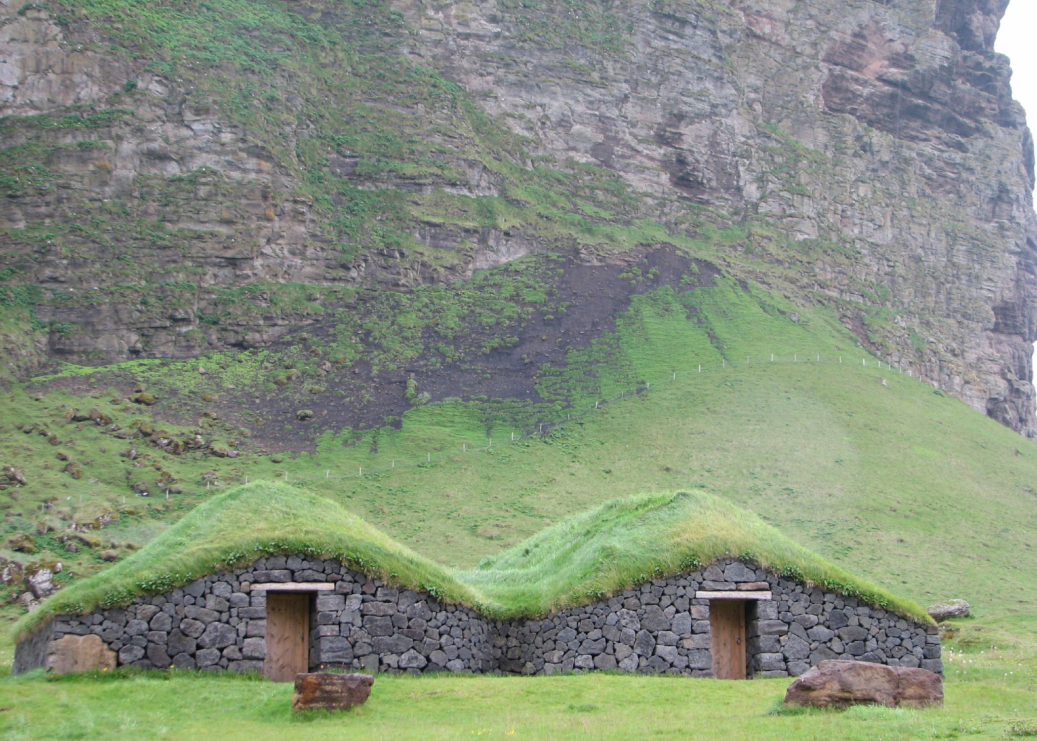 Houses with turf roofs on the island of Heimaey, Iceland.